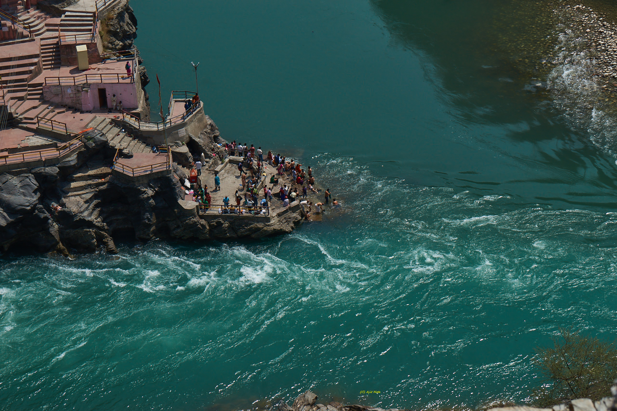 The Ganges begins at the confluence of the Bhagirathi and Alaknanda rivers. The Bhagirathi is considered to be the source in Hindu culture and mythology.